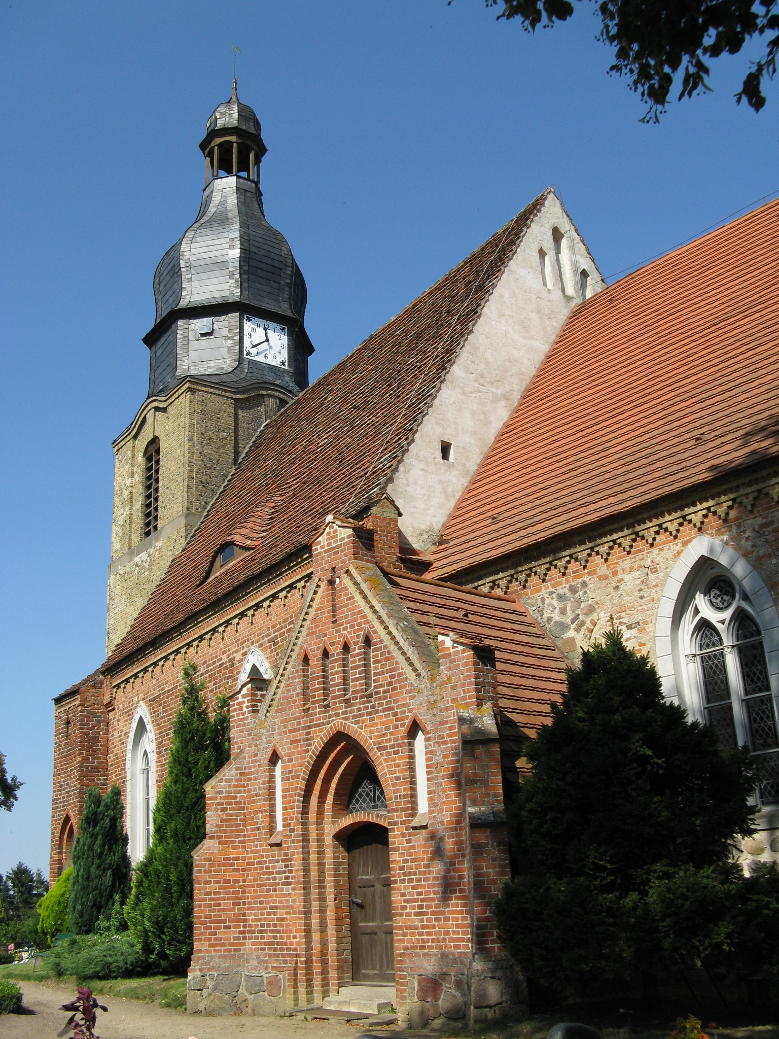 Church in Boddin, disctrict Güstrow, Mecklenburg-Vorpommern, Germany